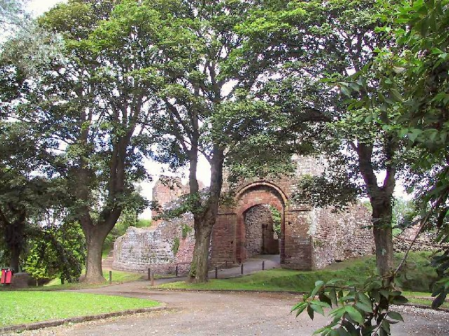 Egremont Castle was in the town of Egremont, Cumbria. (grid reference NY010103).